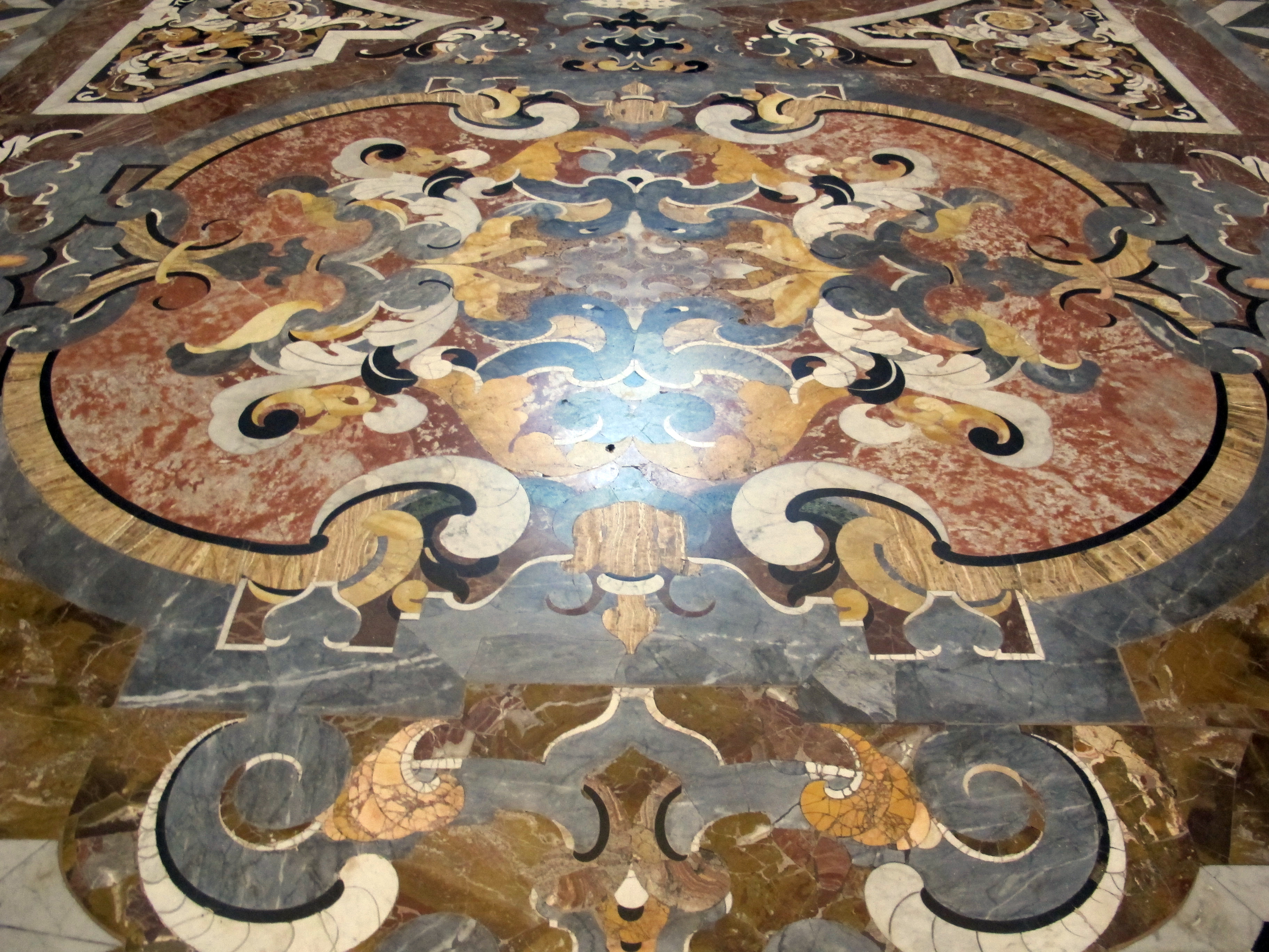 Certosa di San Martino (Naples) - Church